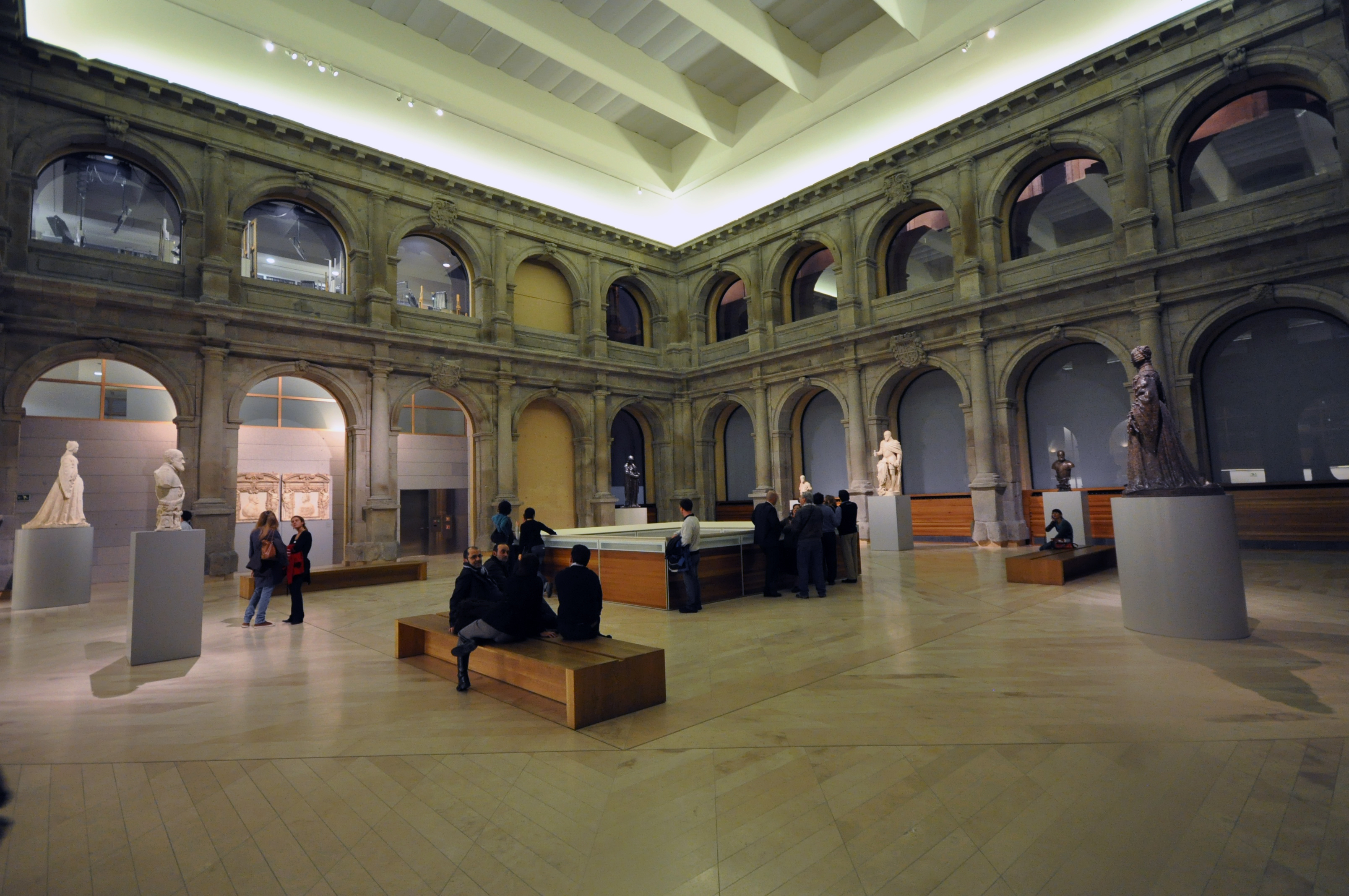 The Museo del Prado is a museum and art gallery located in Madrid. It features one of the world's finest collections of European art, from the 12th century to the early 19th century, based on the former Spanish Royal Collection. Founded as a museum of paintings and sculpture, it also contains important collections of more than 5,000 drawings, 2,000 prints, 1,000 coins and medals, and almost 2,000 decorative objects and works of art. Sculpture is represented by more than 700 works and by a smaller number of sculptural fragments. It is one of the most visited sites in Madrid .